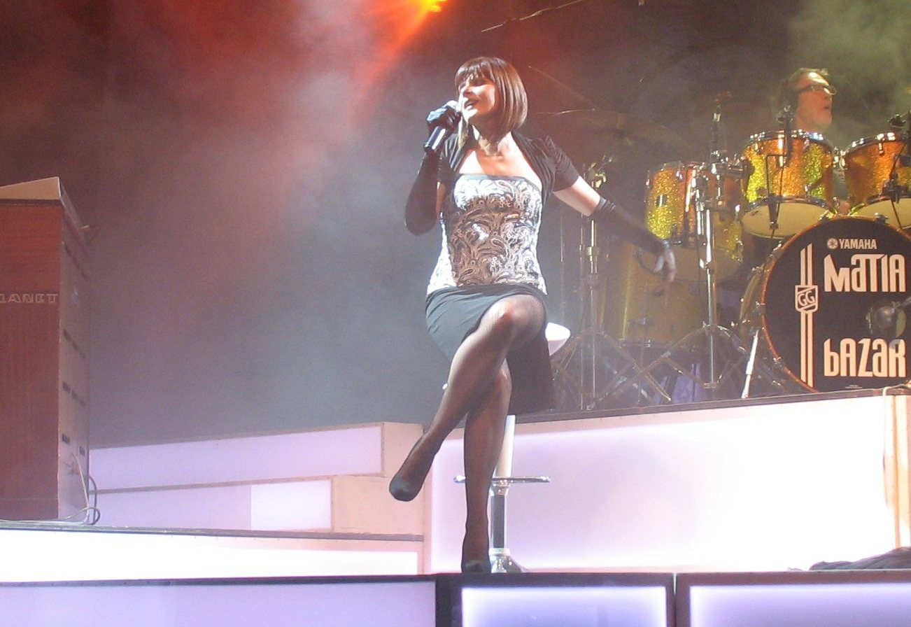 Silvia Mezzanotte in concert in Calabria (South-Italy)